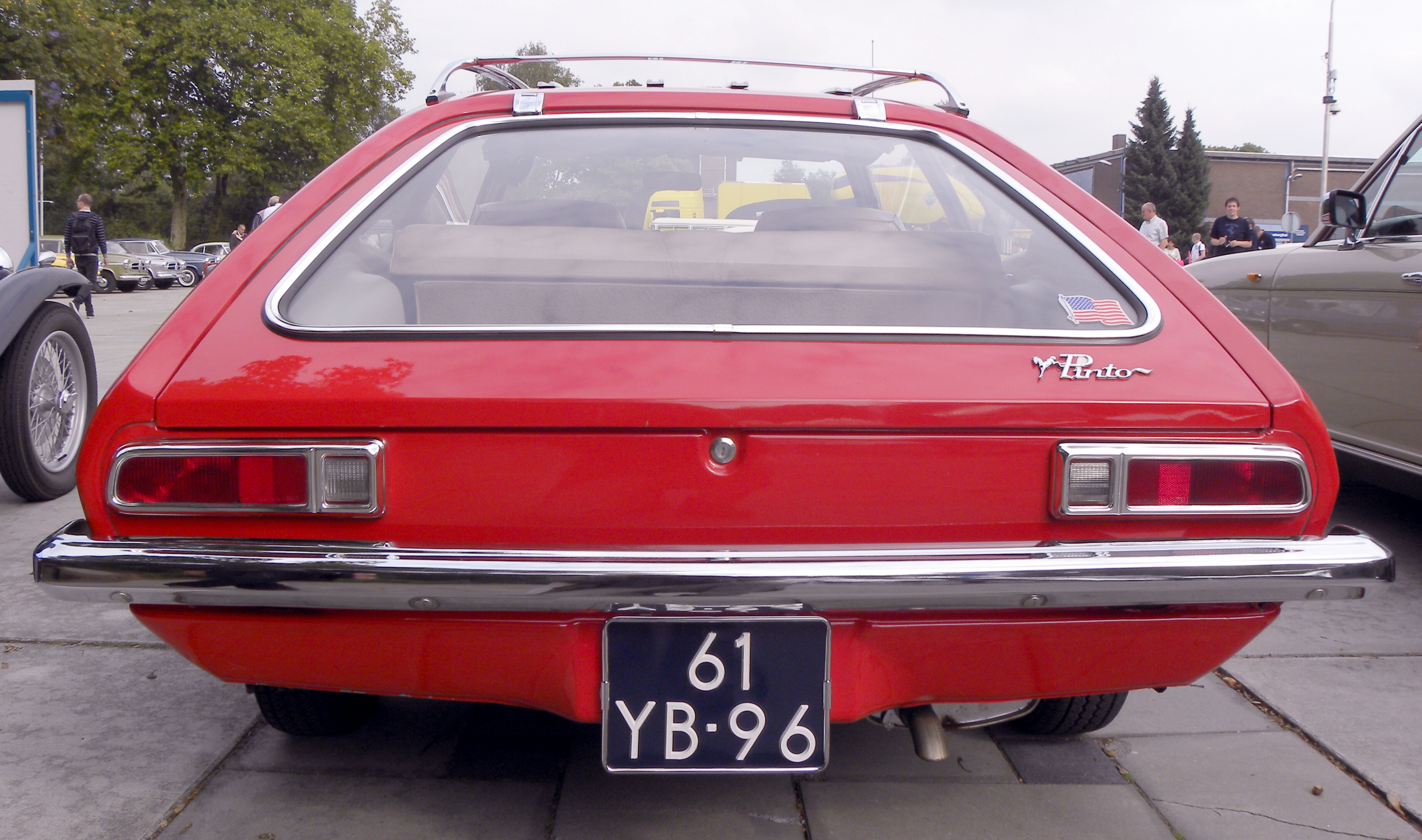 Ford Pinto runabout from 1973